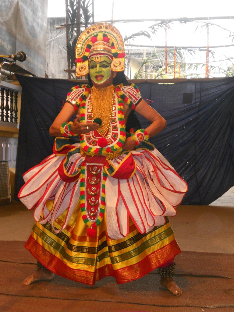 Ottamthullal